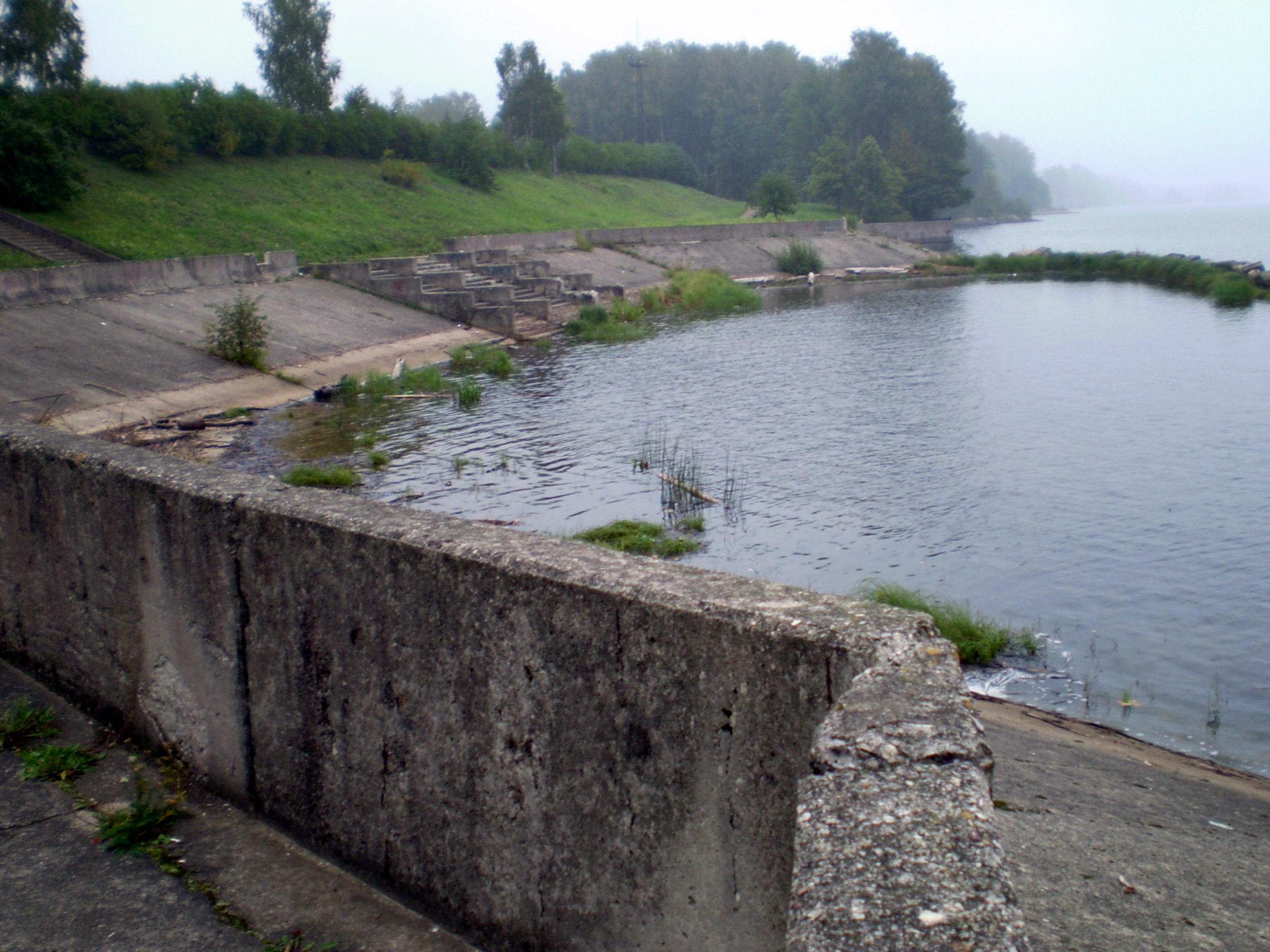 Beach in Aizkraukle, Latvia